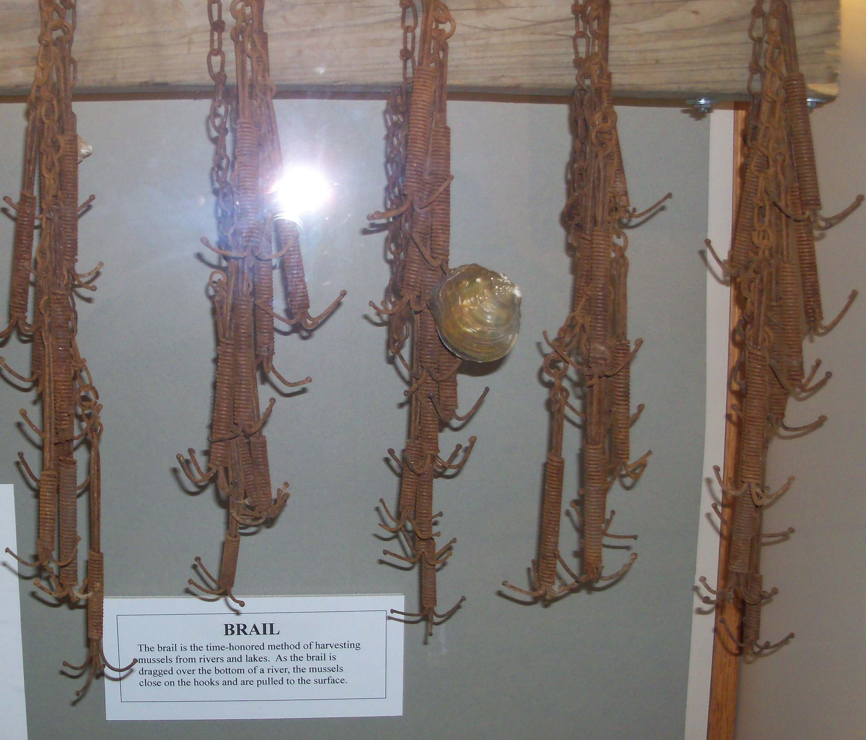 Brail hooks dragged along the bottom of freshwater rivers and lakes harvest Mussels. These are exhibited at the Ohio River Museum.